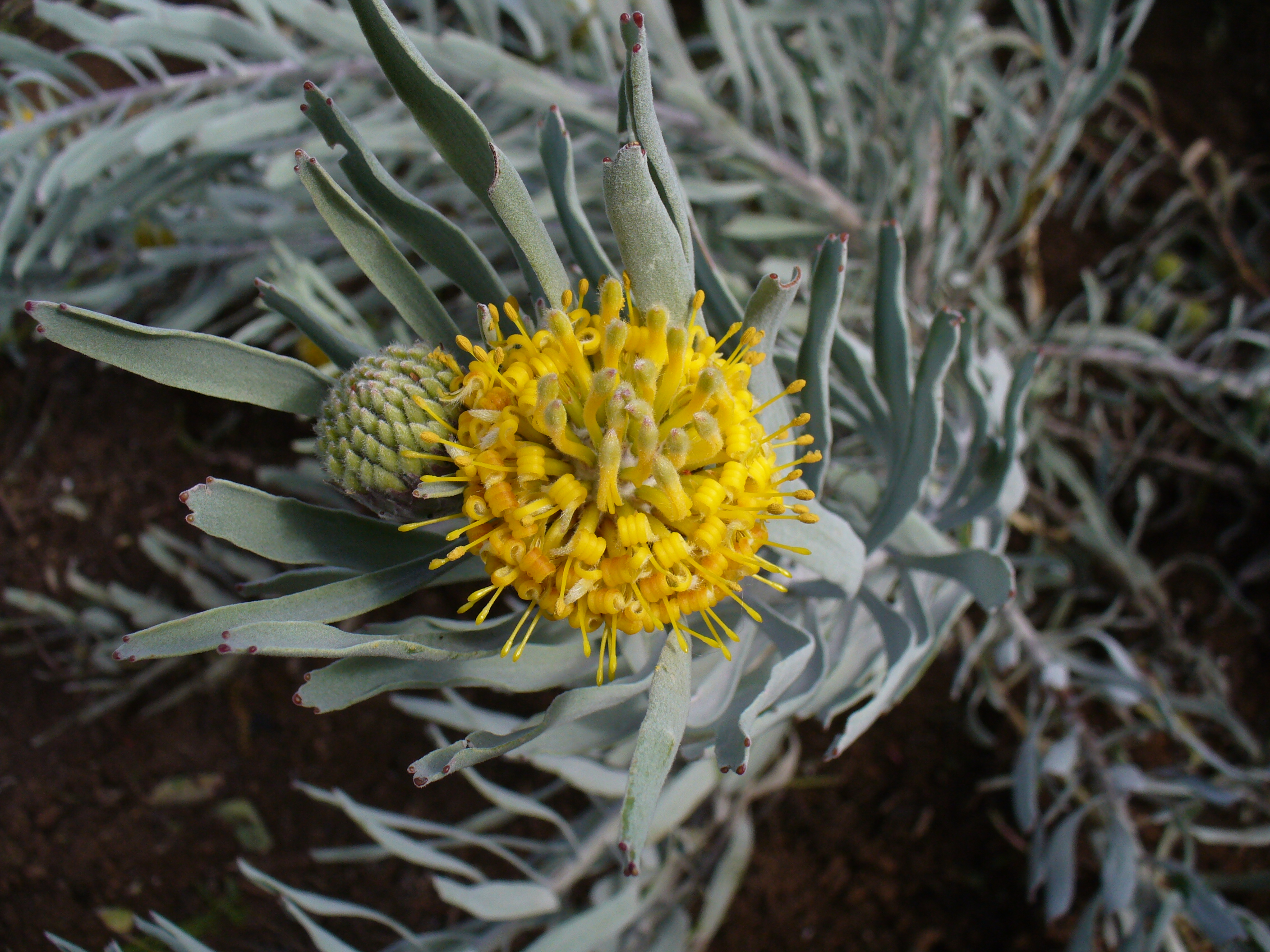 Saldanah pincushion flower